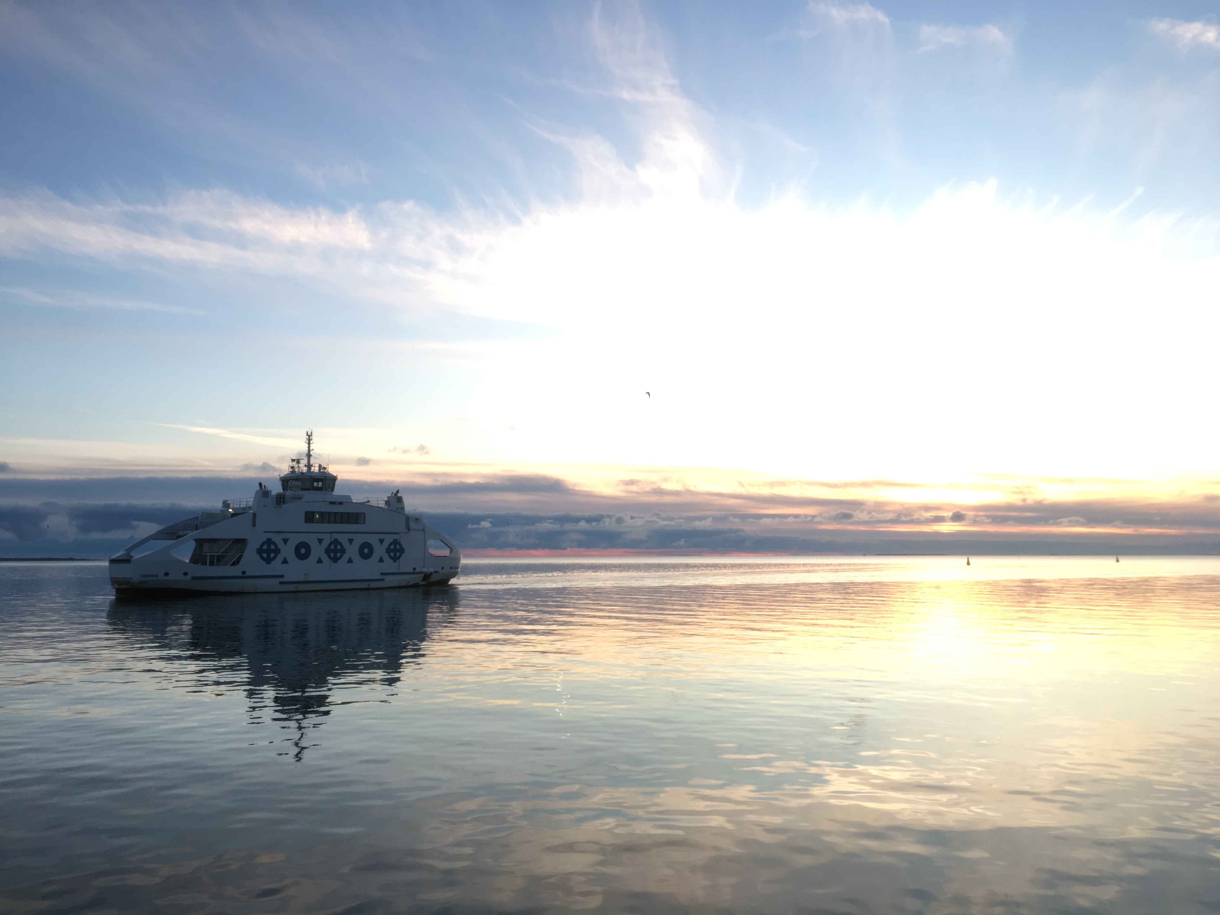 Ormsö ; Vormsi ferry in Rohuküla